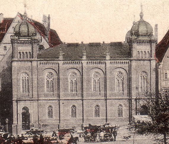 Synagogue of Ulm (Germany) before its transformation in 1927